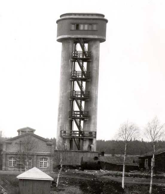 Jämsänkoski pulp mill in Finland in 1927